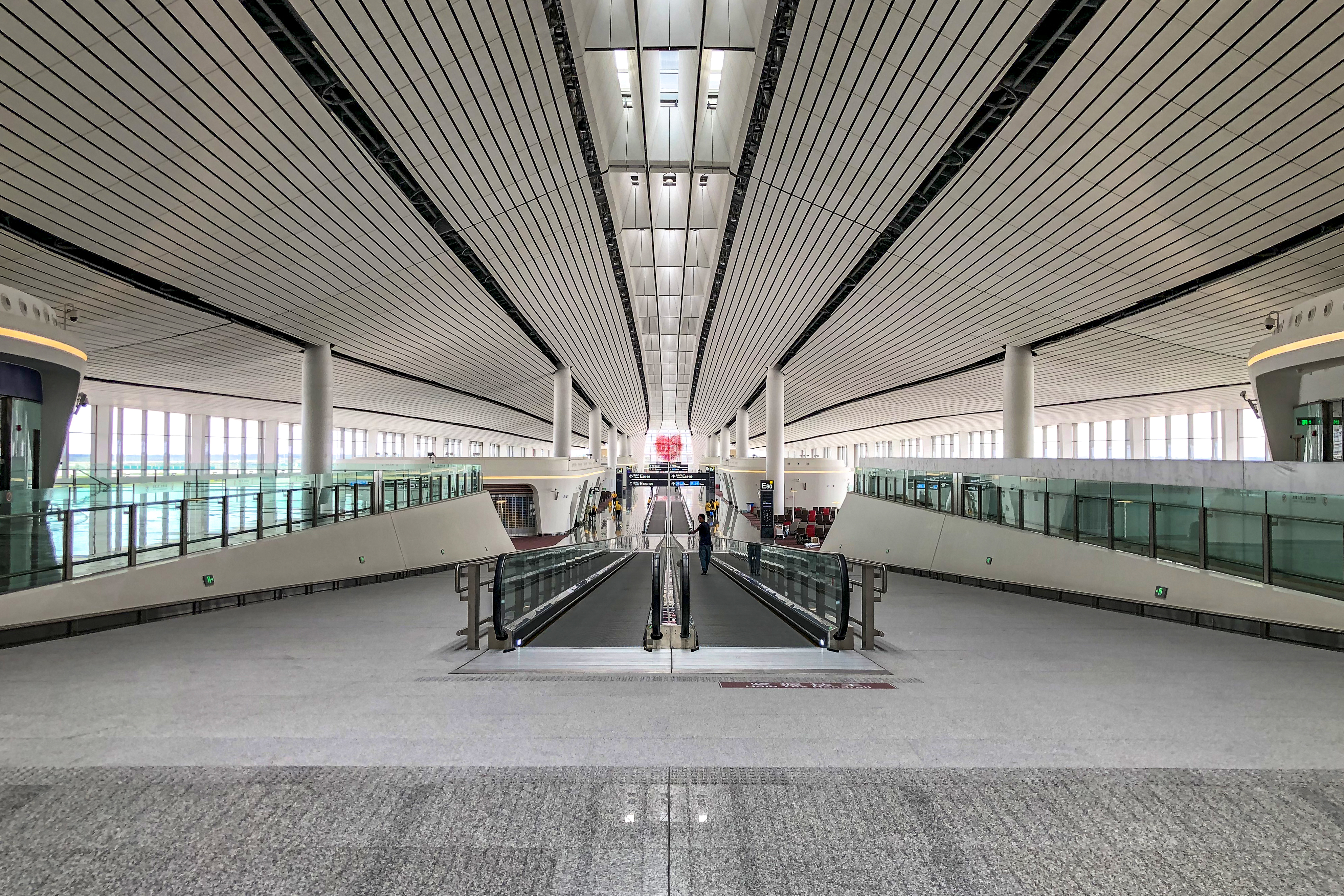 Quite massive. But today's PKX comprehensive drill would end soon...